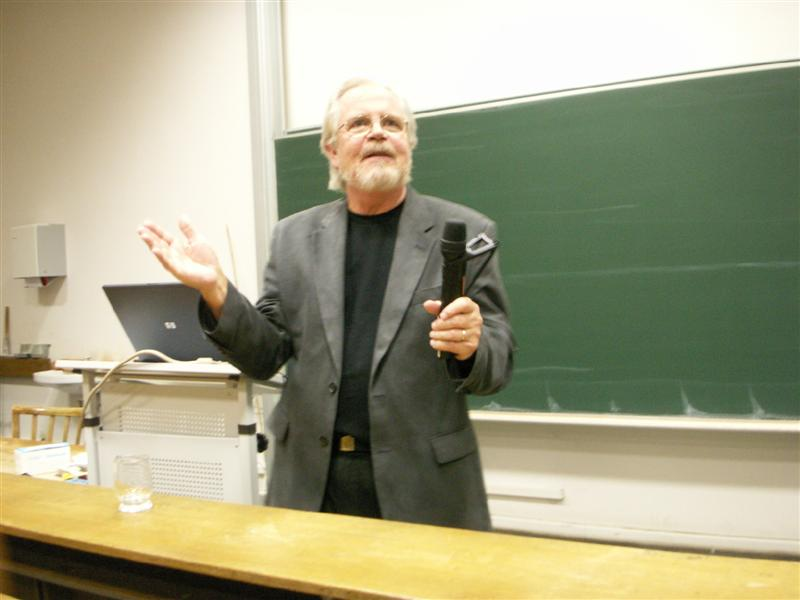 Prof. Dr. Tom Regan